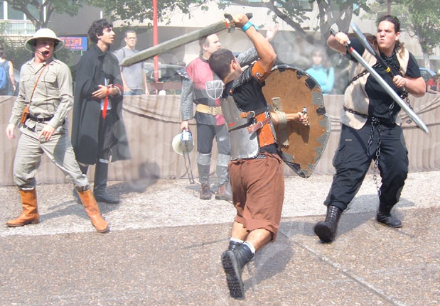 A fight at the "Koloseum" battle rong, ICON festival, 2005